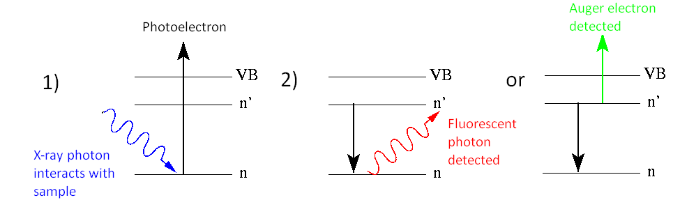 The fundamental processes which contribute to NEXAFS spectra: (a) photoabsorption of an x-ray into a core level followed by photoelectron emission, followed by either (b) filling of the core hole by an electron in another level, accompanied by fluorescence; or (c) filling of the core hole by an electron in another level followed by emission of an Auger electron. Created by Alison Chaiken using xfig. Modified by GoddersUK Modified from